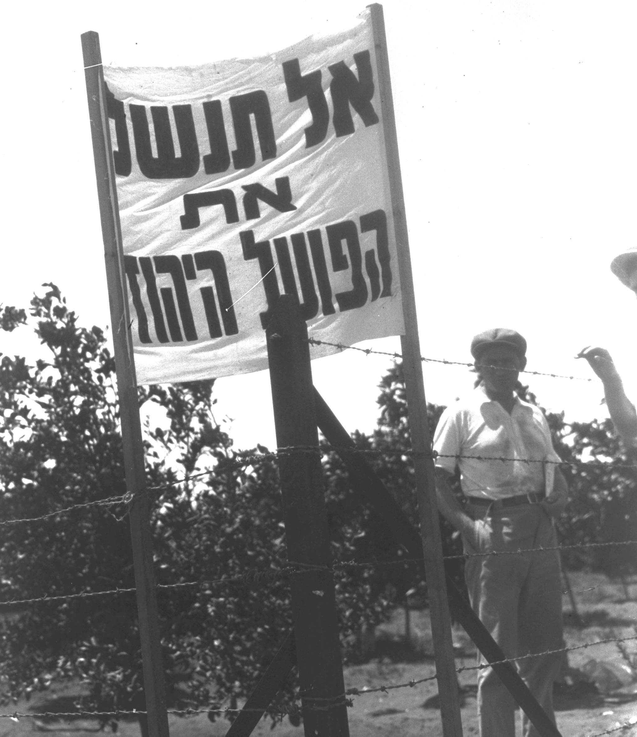 Jewish demonstrators outside the "Rapaport" orange grove in Kfar Saba, demanding the employment of Jewish workers.